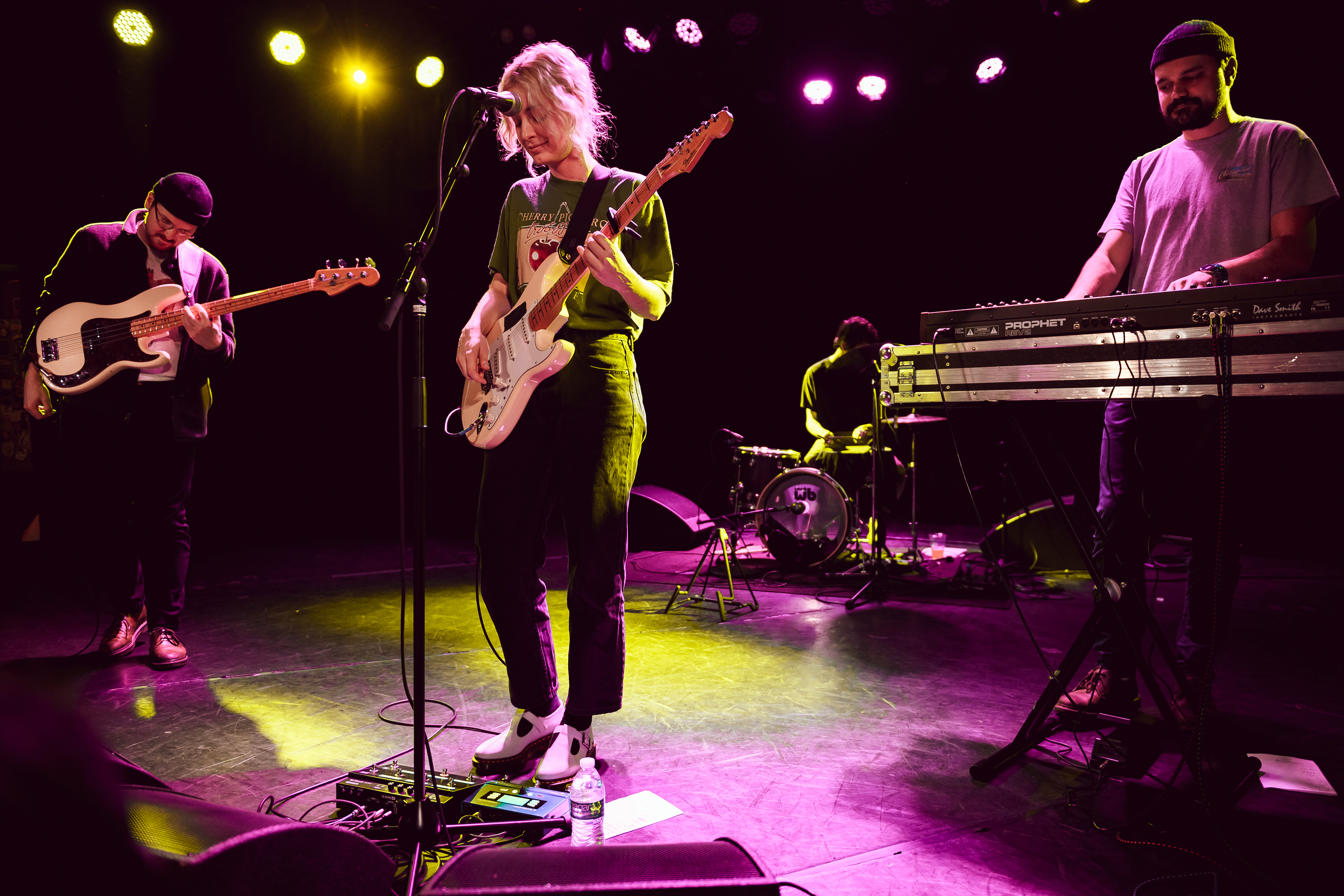 Men I Trust performing live at The Roxy theatre in West Hollywood, Los Angeles, California, on Thursday, February 28, 2019. Shot for Live Nation's Ones To Watch.